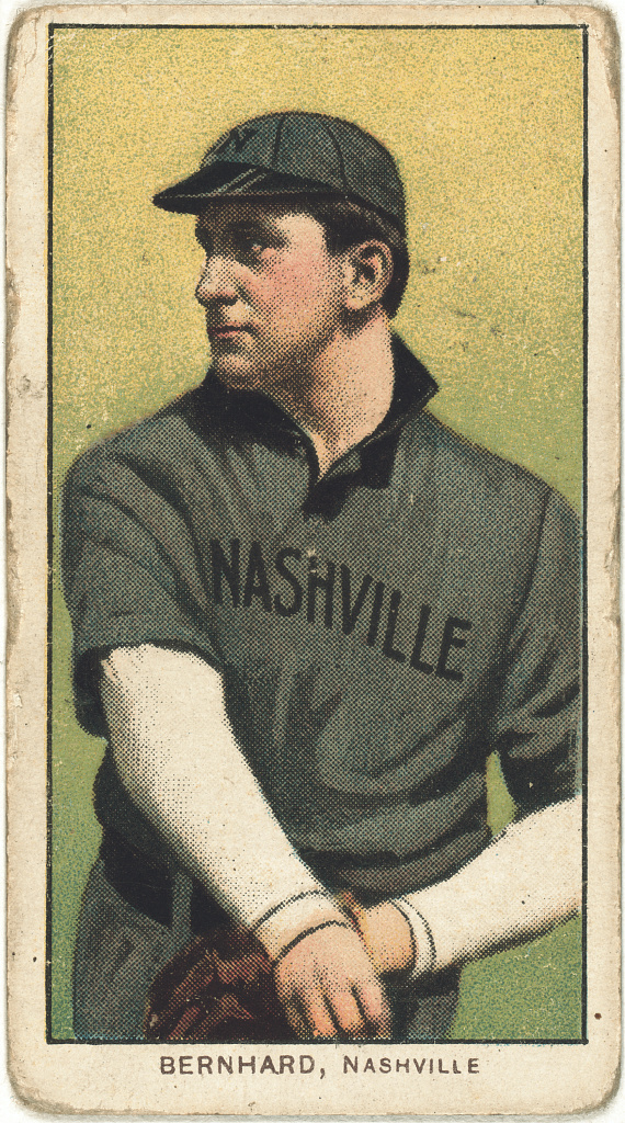 Title: Bill Bernhard, Nashville Team, baseball card portrait Abstract/medium: 1 print : relief with halftone, color.